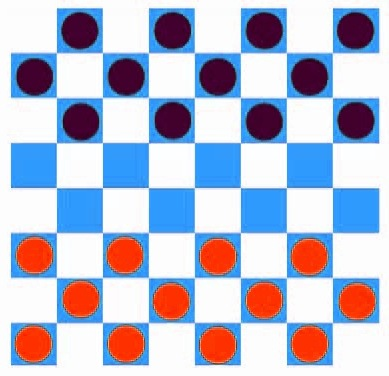 Arrangement of pieces of Tanzanian checkers/draughts. Kiswahili: Mpangilio wa kete wa mwanzo katika mchezo wa drafti.